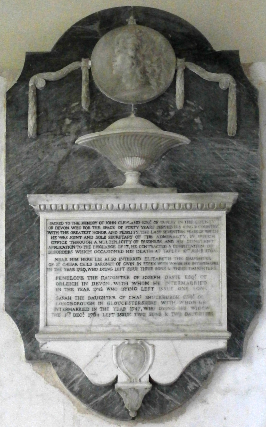 Mural monument in Westleigh Church, Devon, to John I Clevland (1706-1763) of Tapeley. Inscription: "Sacred to the memory of John Clevland Esqr. of Tapley in the county of Devon who for the space of forty years served his king and country with the greatest honor and fidelity the last seventeen years of which he was joint and sole secretary of the Admiralty in which office through a multiplicity of business and his constant application to the discharge of it he contracted a complication of disorders which occasioned his death at Tapley 18th June 1763. Near him here lie also enterred Elizabeth the daughter of Sr. Caesar Child, Baronet, of Gwin in Essex, with whom he intermarried in the year 1729 who dying left issue three sons and three daughters; Penelope the daughter of Joseph Davie Esqr. of Orleigh in Devon, with whom he intermarried in the year 1743 who dying left issue one son; Sarah the daughter of Chas. Shuckburgh Esqr. of Longborough in Gloucestershire with whom he intermarried in the year 1747 who dying his widow the 5th Decr. 1764 left issue two sons & two daughters"